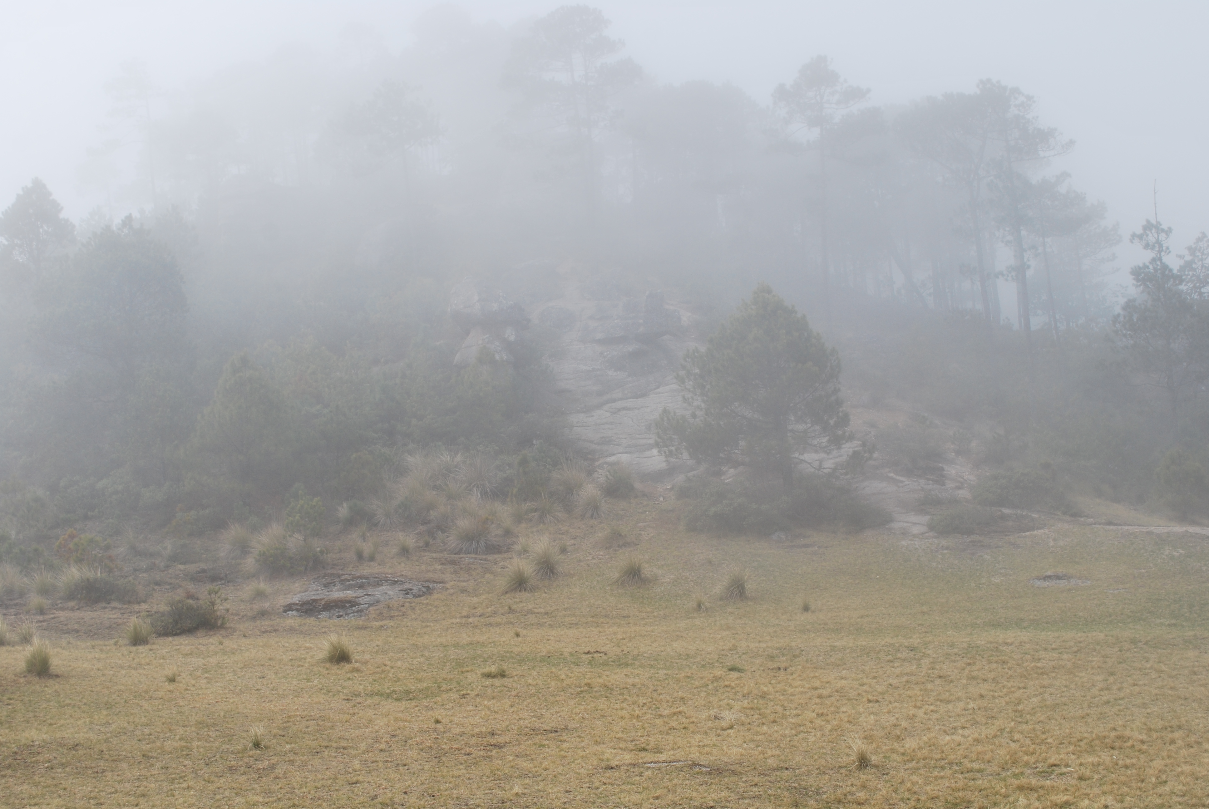 View of fog at the Valle de las Piedras Encimadas park in Zacatlán, Puebla, Mexico